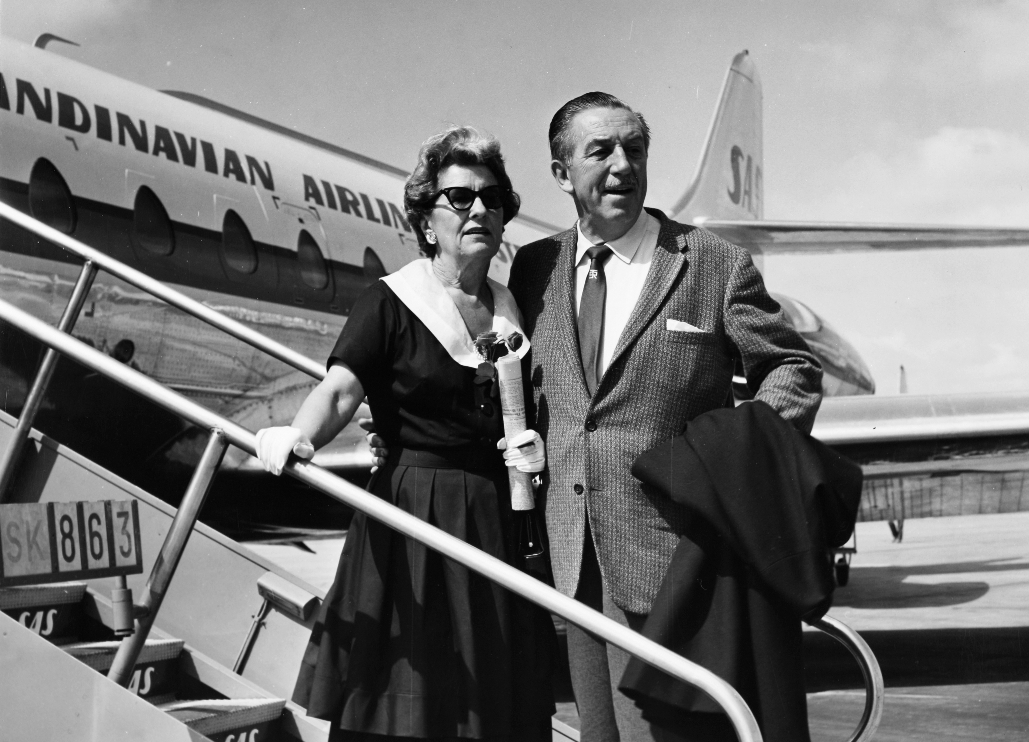 Walt Disney and his wife departing from Kastrup Airport CPH, Copenhagen by SAS to Vienna